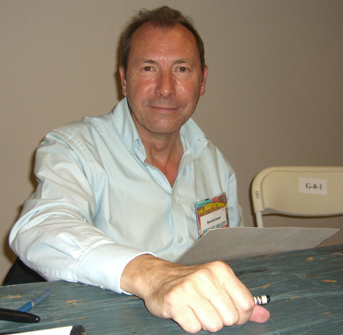 Comic book creator David Lloyd at the November 2008 Big Apple Convention in Manhattan.